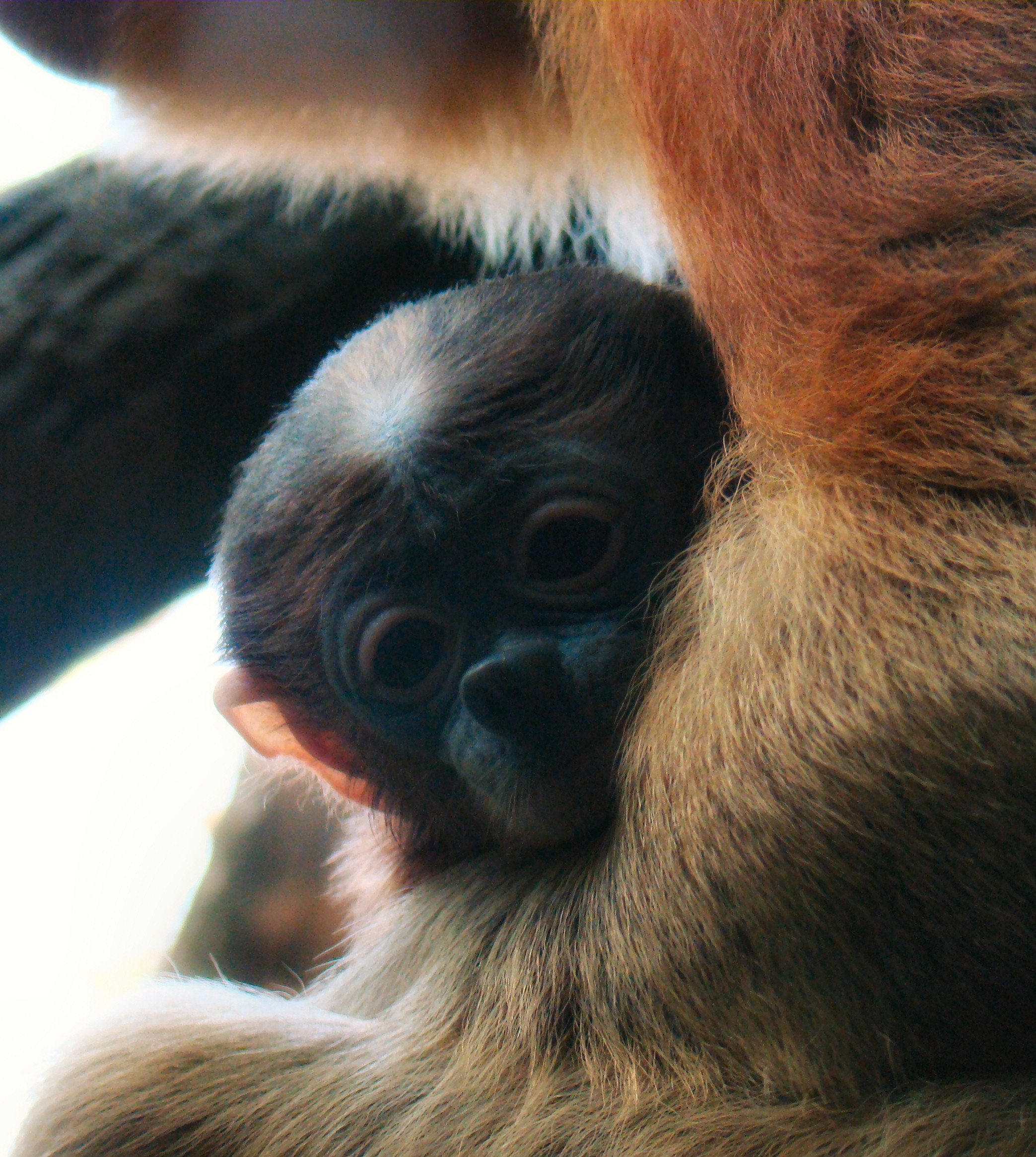 It's apparent from an early age that there's something special going on mid-face on proboscis monkeys. This photo is from the Singapore Zoo, one of few places in the world where this species breeds in captivity.